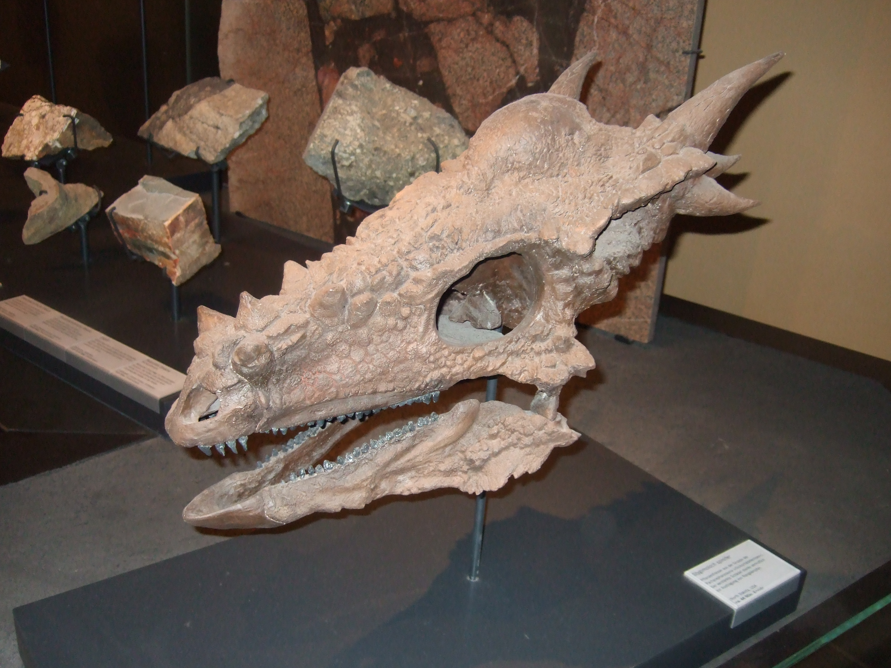 Museum für Naturkunde Berlin. Fossil Stygimoloch spinifer skull. North Dakota, USA; 66 million years old